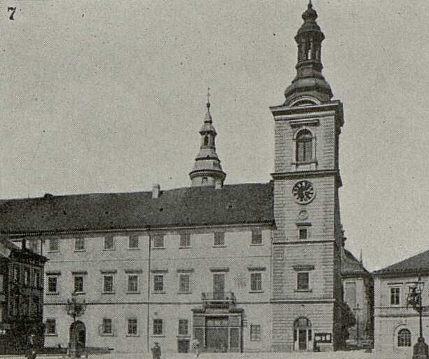 Old town hall of Mladá Boleslav.